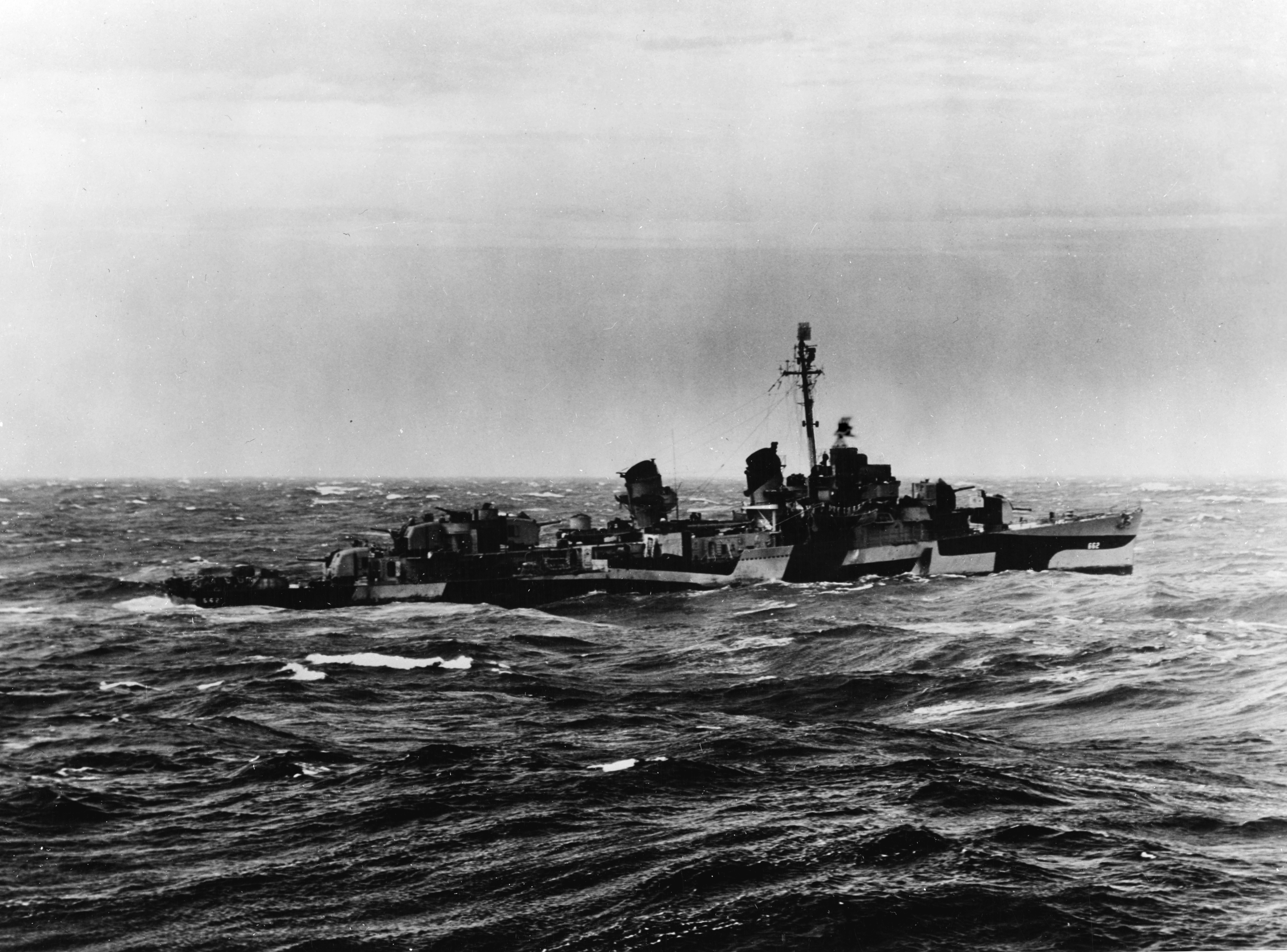 The U.S. Navy destroyer USS Bennion (DD-662) underway on 13 January 1945. The ship is painted in Camouflage Measure 32, Design 13D.